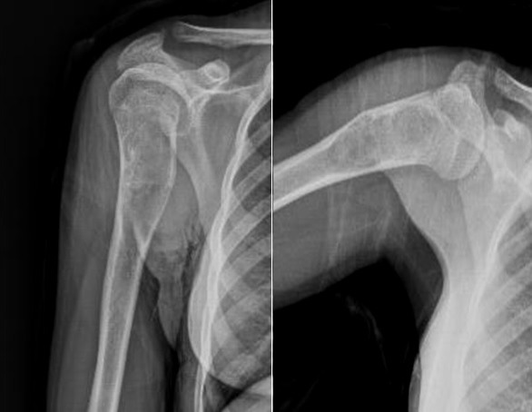 Radiography view of the simple bone cyst of the proximal humeral in 13 year old boy.